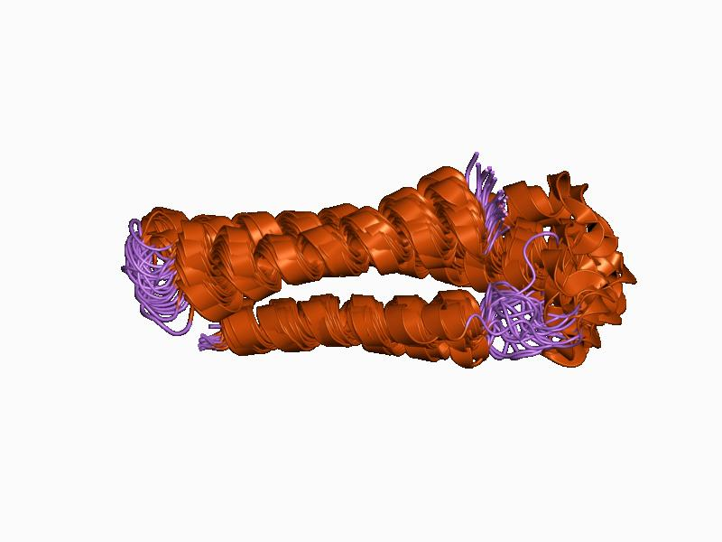 Cartoon representation of the molecular structure of protein registered with 1aj3 code.